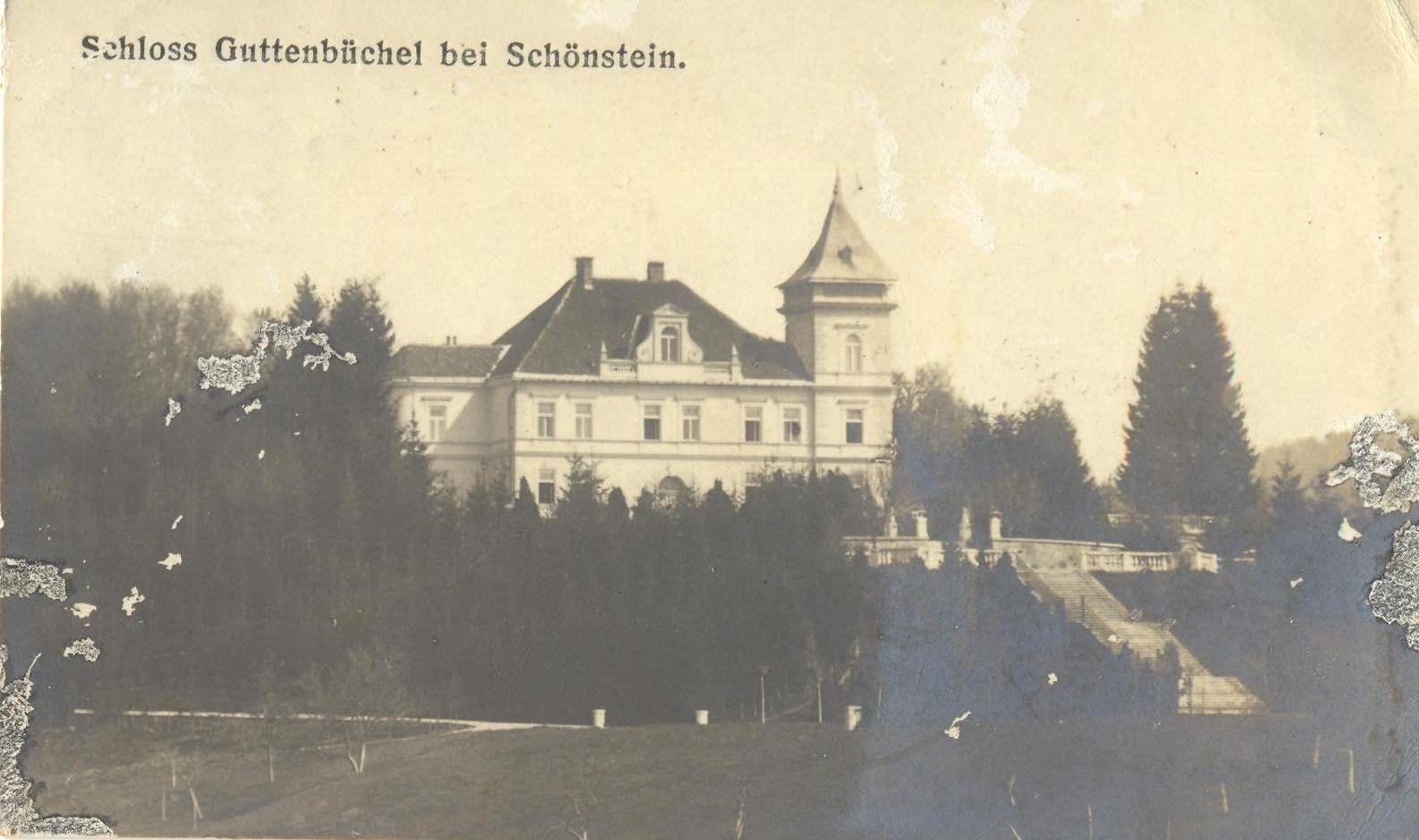 Postcard of Šoštanj.